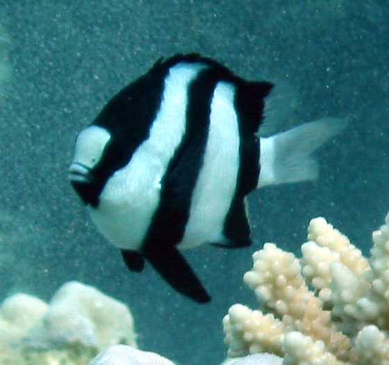 Alan Slater